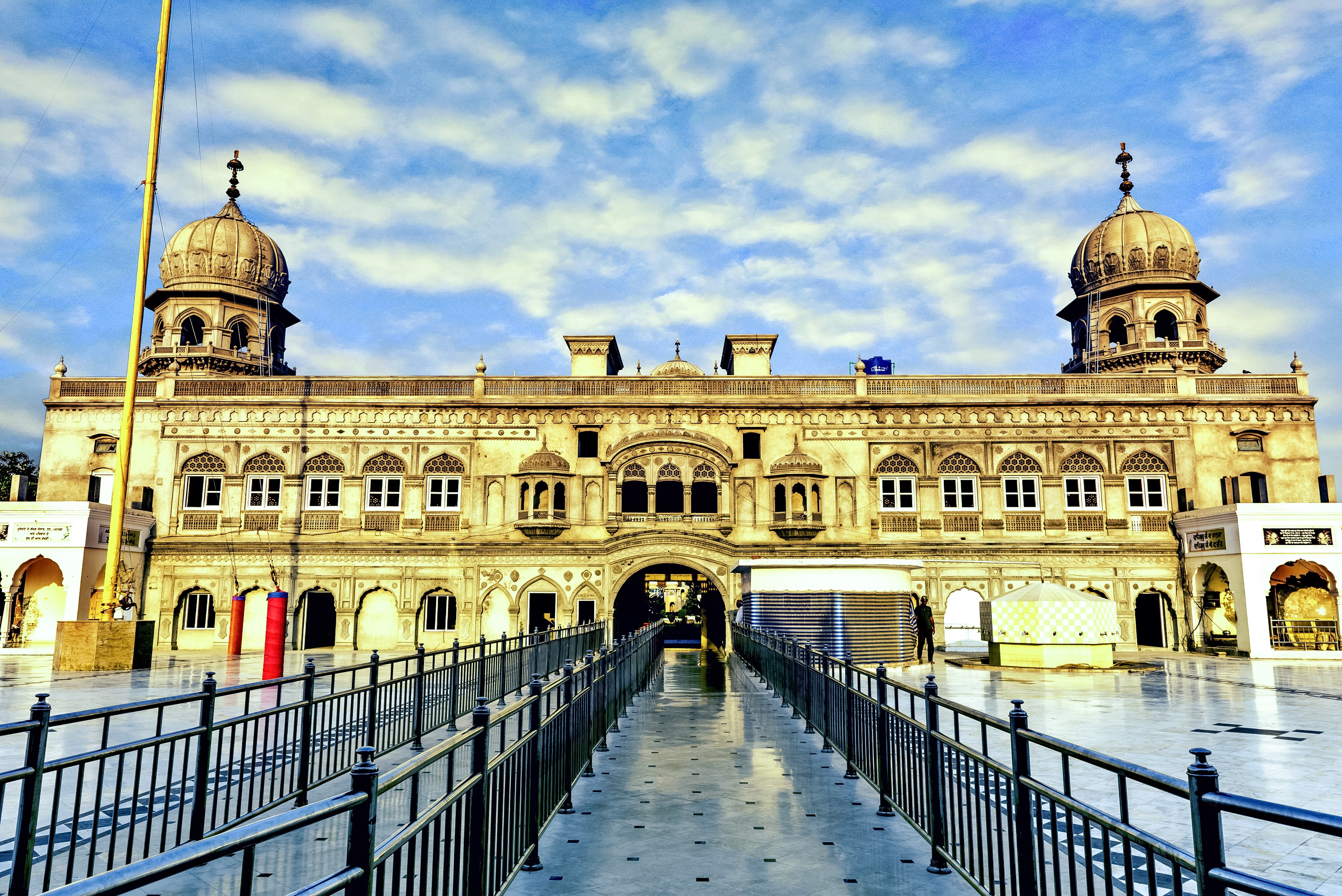 Gurdwara Janam Asthan This is a photo of a monument in Pakistan identified as the PB-U-44